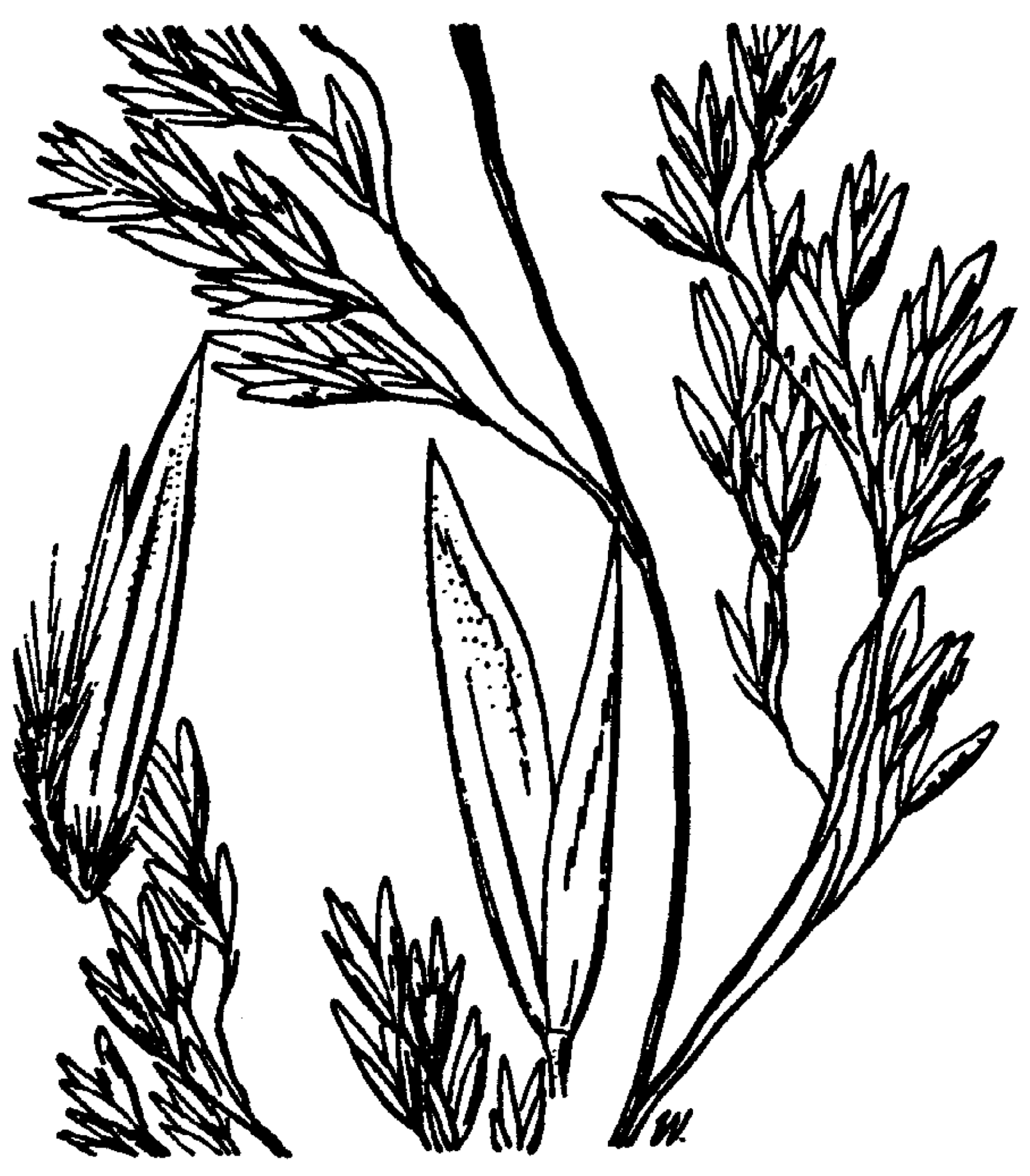 Graphephorum melicoides (Michx.) P. Beauv. - purple false oats